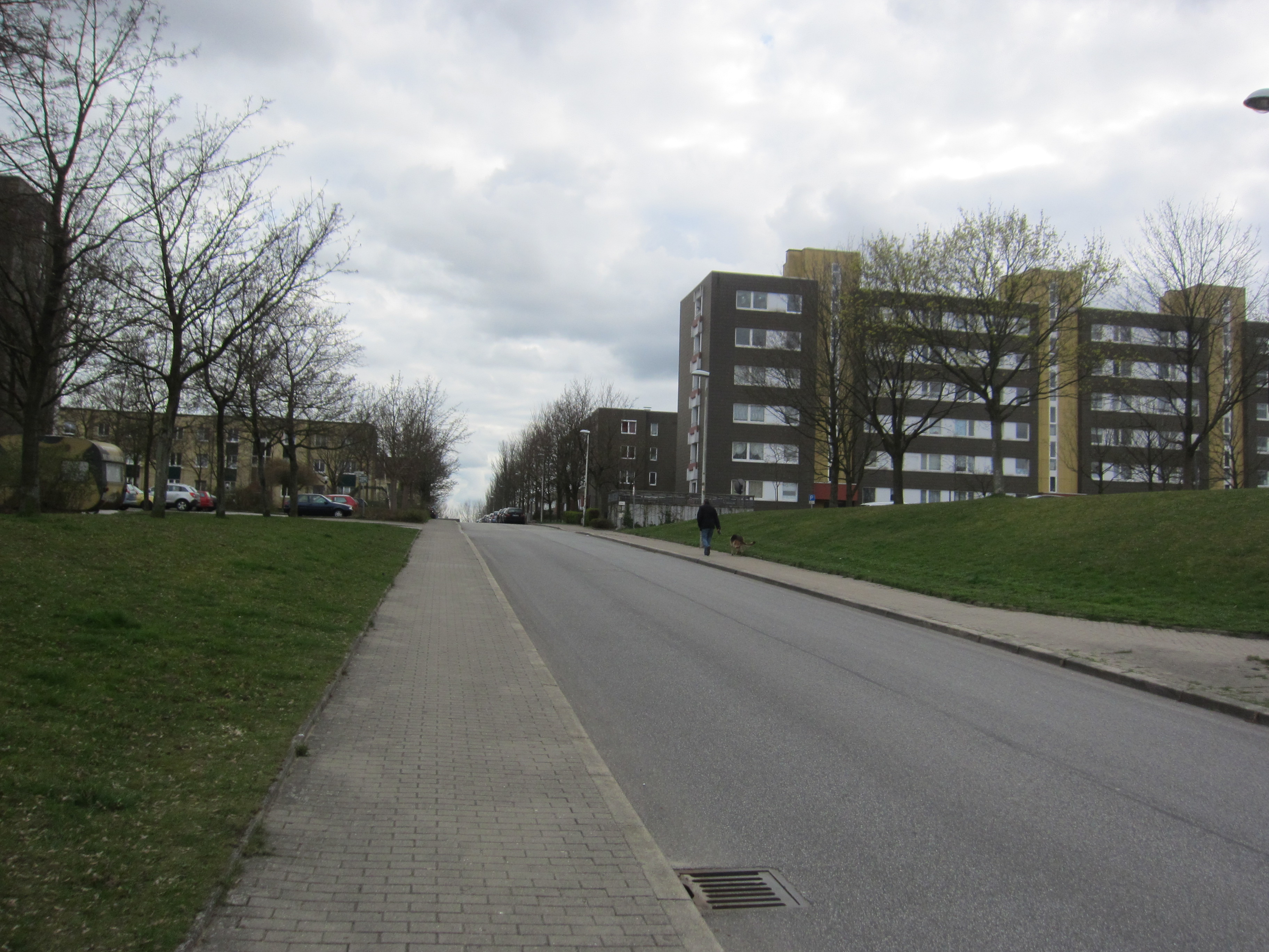 Street "Isarweg" in Kiel-Elmschenhagen